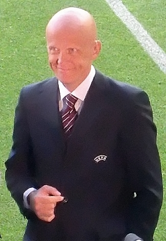 Italian football (soccer) referee Pierluigi Collina